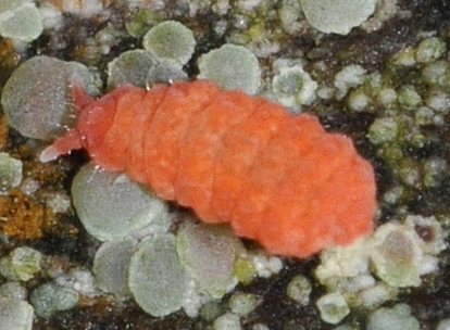 Bilobella braunerae Deharveng, 1981. Germany: Niedersachsen, Solling mountains, Landkreis Holzminden, Mecklenbruch near Silberborn, 450 m.